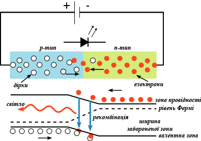 Schematic diagrams of Light Emitting Diodes (LED).